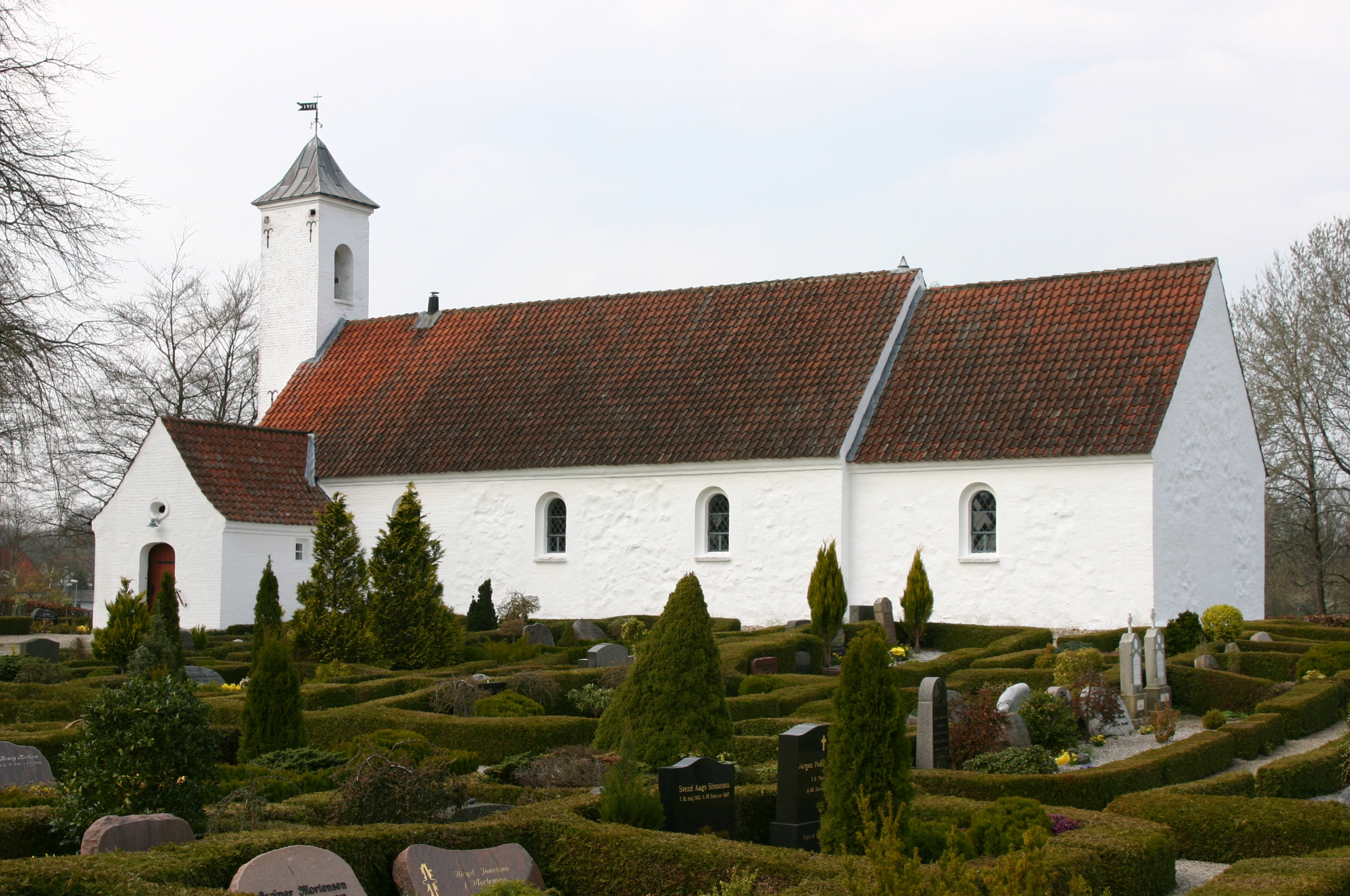 Parish Church of Finderup, near Viborg, Denmark Finderup Kirke ved Viborg